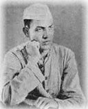 Shridev Suman